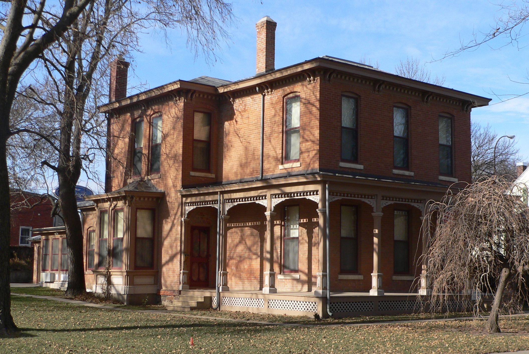 Bruce-Donaldson House at 313 Pine St. in Yankton, South Dakota; seen from the southeast. The Italianate house was built in 1879. It is listed in the National Register of Historic Places.